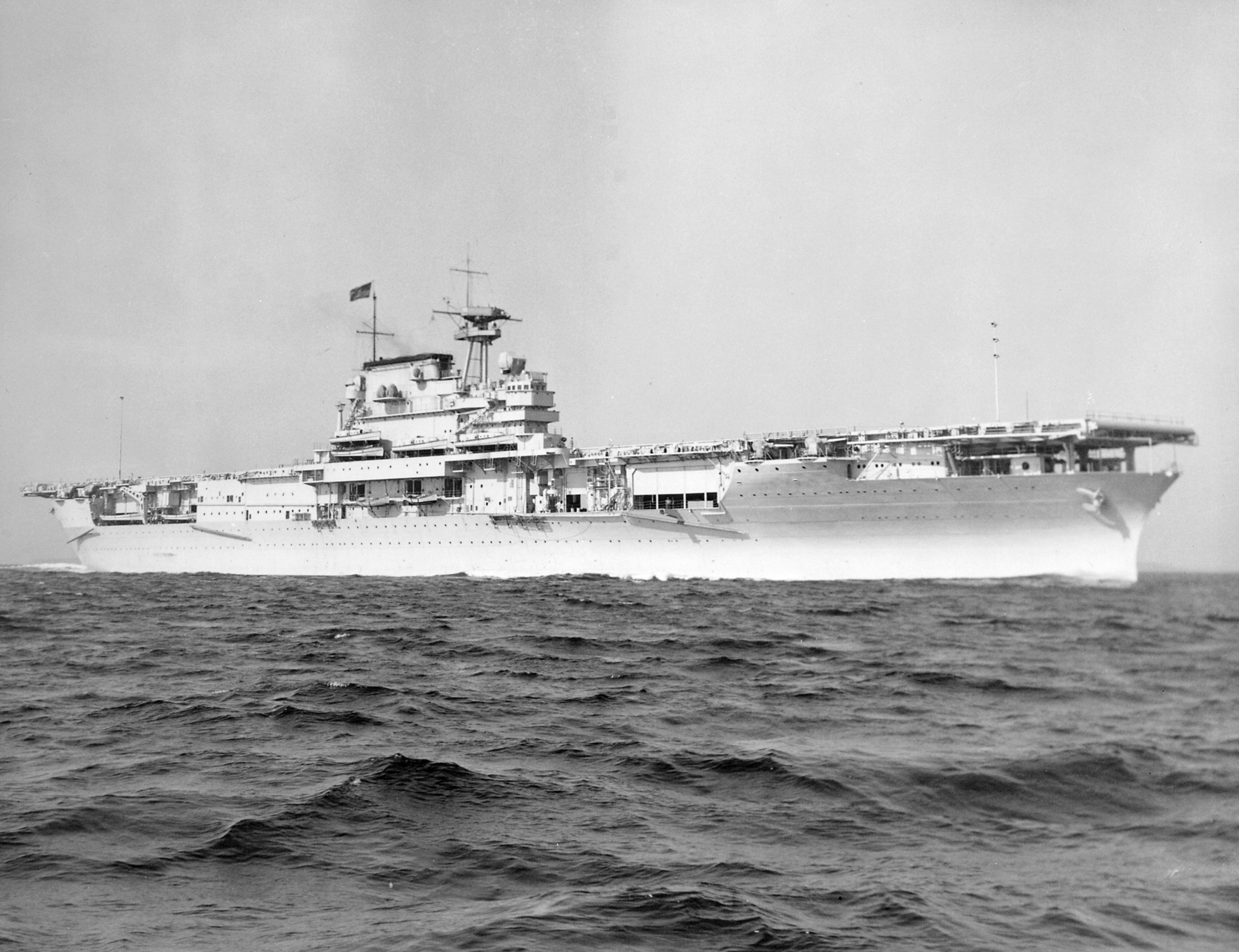 The U.S. Navy aircraft carrier USS Yorktown (CV-5) underway, on 21 July 1937.